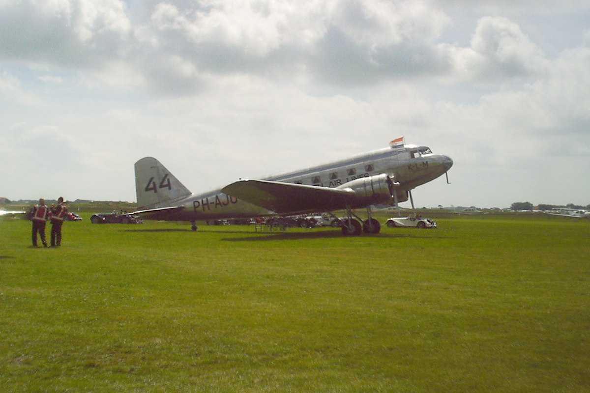 Douglas DC2 at the Texel Airshow 2007. This is a replica of a KLM-plane, the Uiver, which won the handicap section of the MacRobertson Londen - Melbourne Air Race 1934.